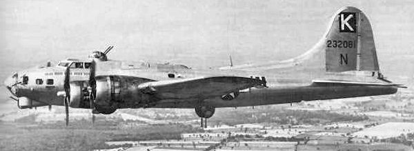 B-17 447th Bombardment Group 42-32080